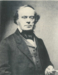 Frederick Henry Hedge (1805-1890), a New England Unitarian minister and Transcendentalist.